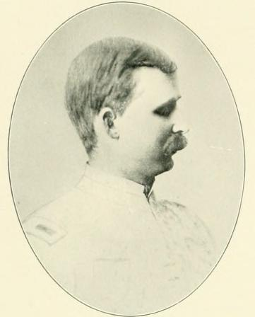 Matthew A. Batson from A military album, containing over one thousand portraits of commissioned officers who served in the Spanish-American war published by L. R. Hamersly in 1902